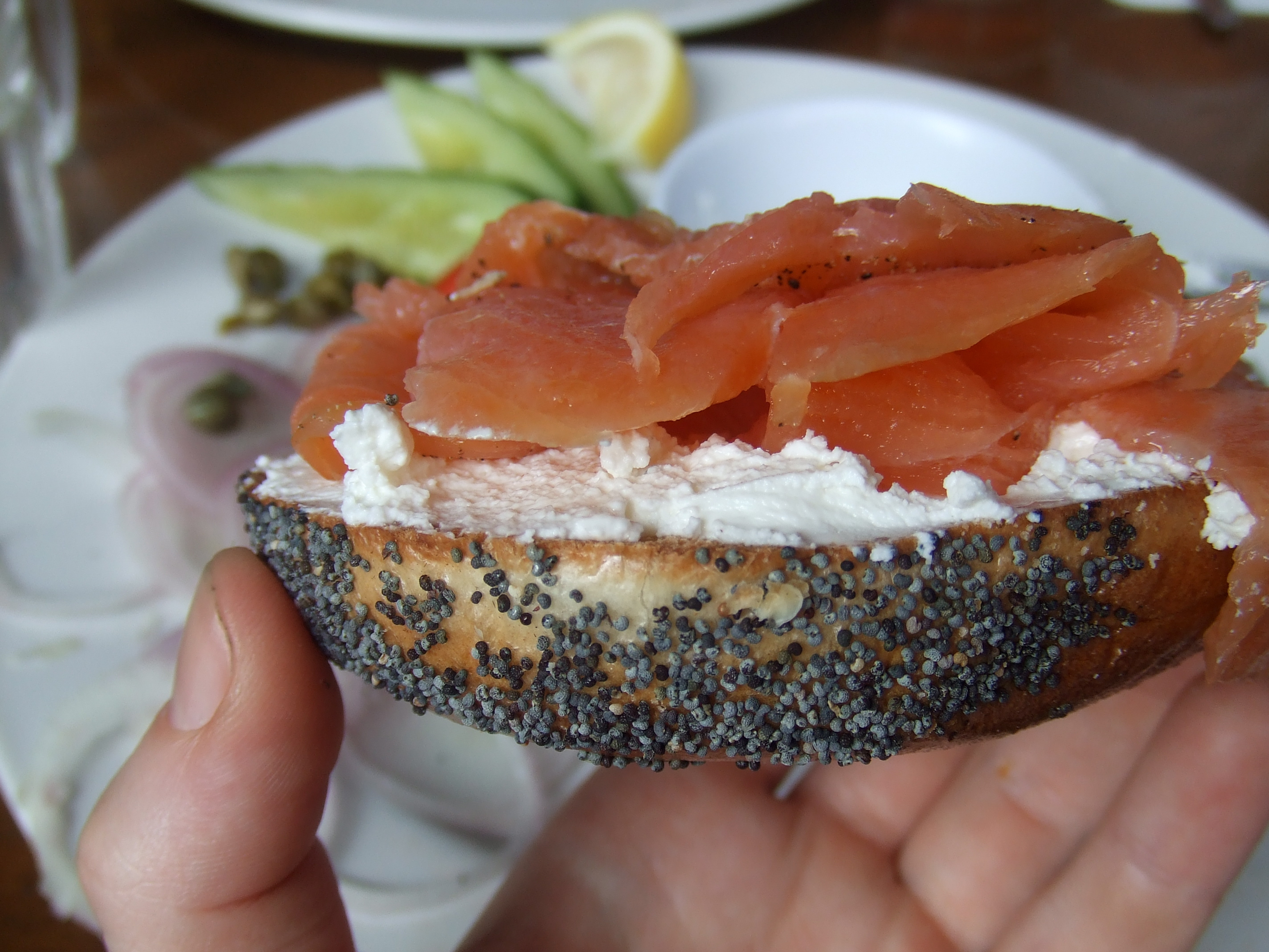 a proper montreal bagel.. tiny, dense and slightly sweet.